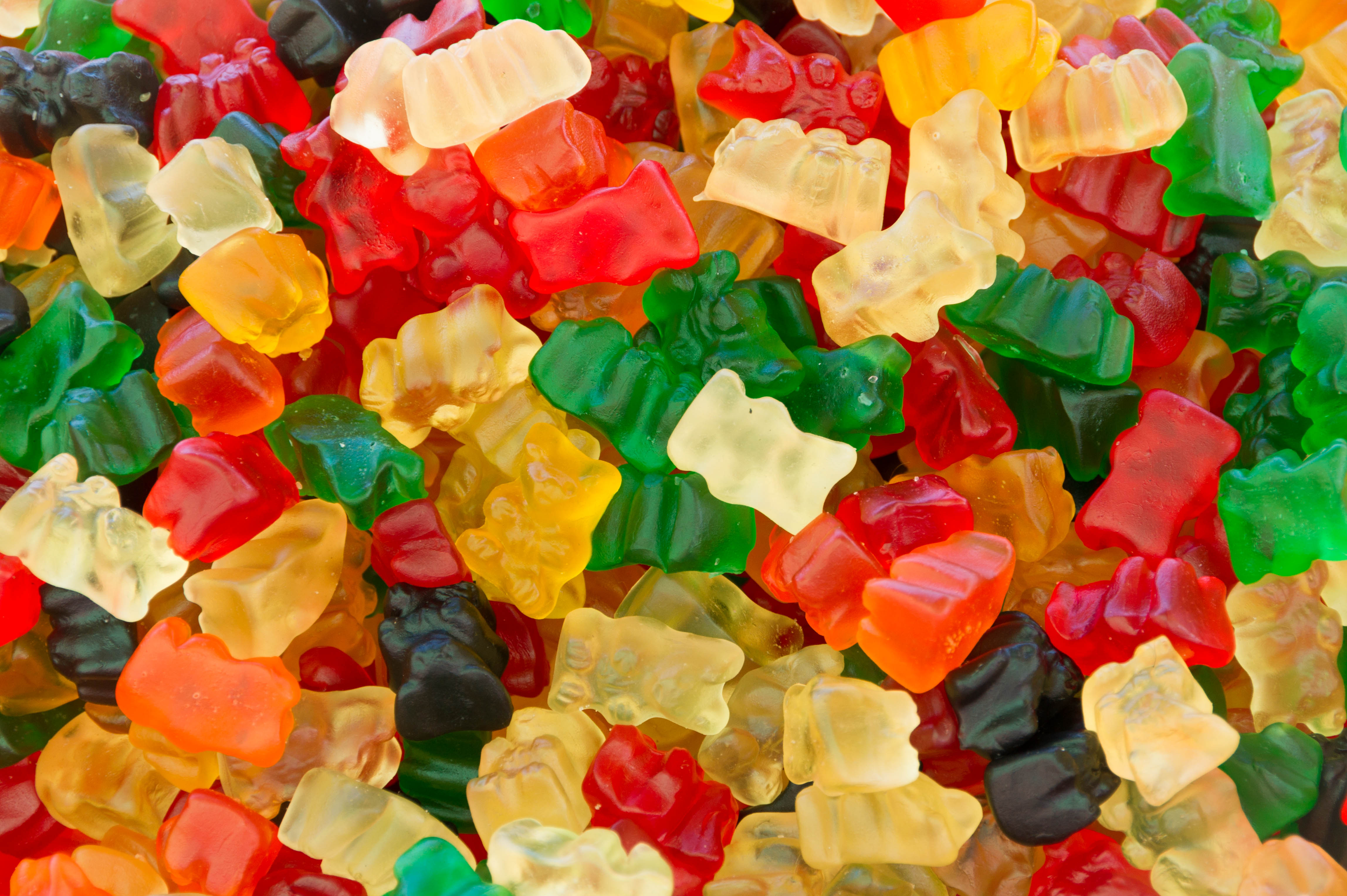 Gummi-Bears texture